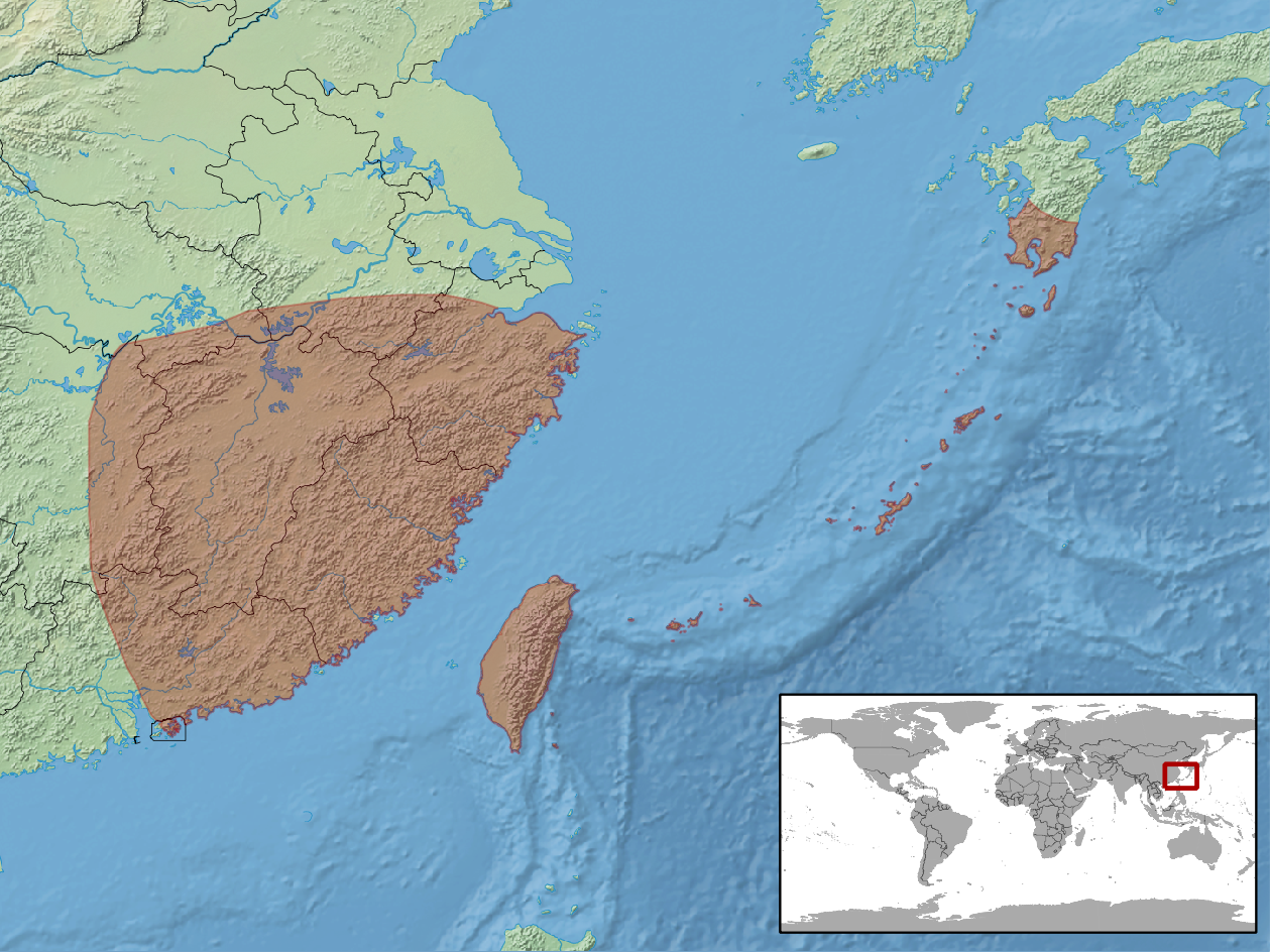 geographic distribution of Gekko hokouensis (Native: China; Japan; Taiwan, Province of China)